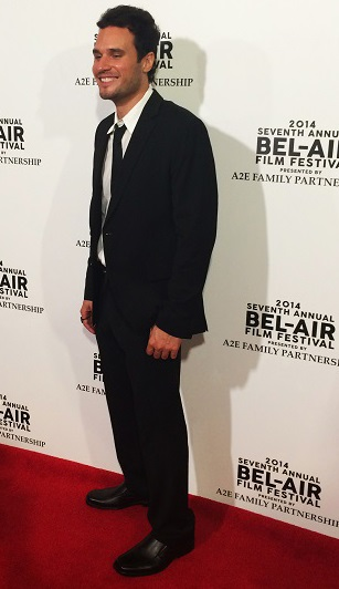 Zachary Laoutided at an event for Adios Vaya con Dios (2014)